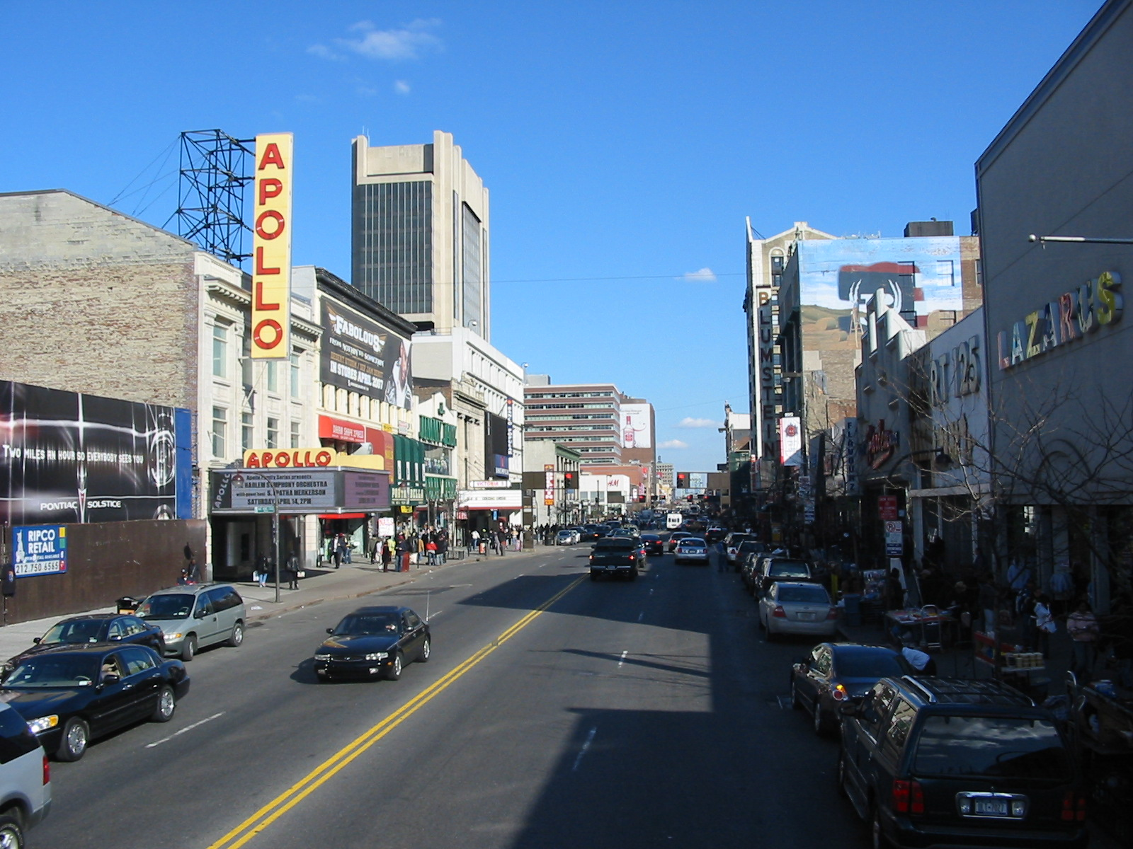 New York - Harlem, 125th street Apollo Theater